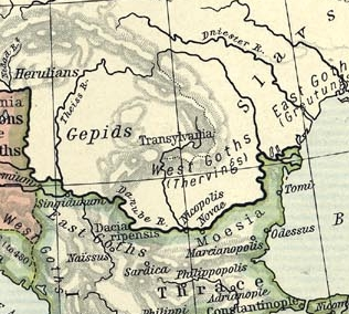 Romania in late 5th century in Historical Atlas by William R. Shepherd